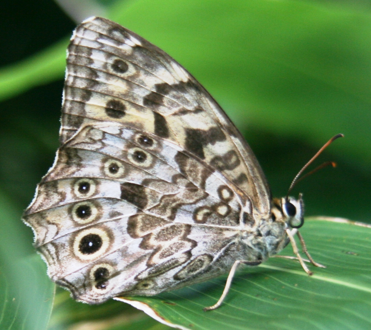 Neope niphonica in Mount Gozaisho